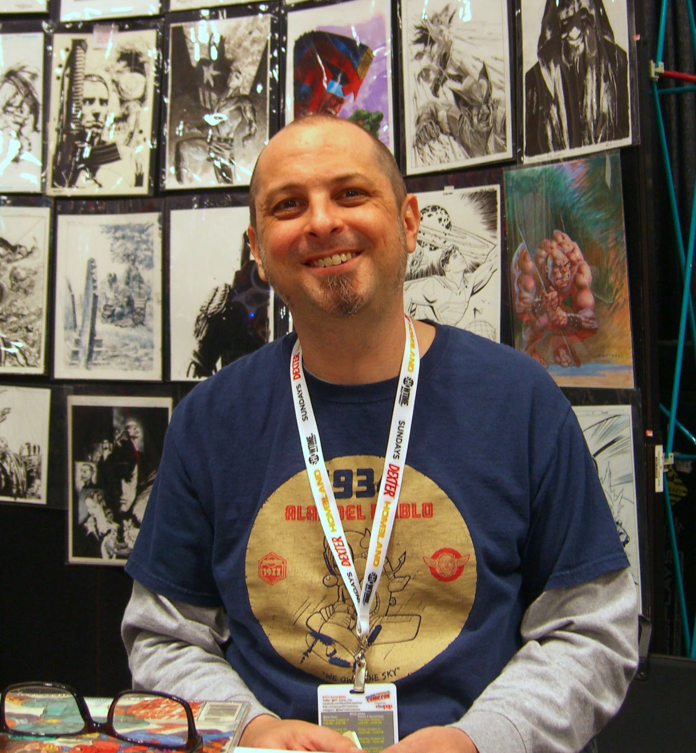 Comics creator Michael Lark on Day 2 of the 2012 New York Comic Con, Friday October 12, 2012 at the Jacob K. Javits Convention Center in Manhattan. This photo was created by Luigi Novi. It is not in the public domain, and use of this file outside of the licensing terms is a copyright violation.